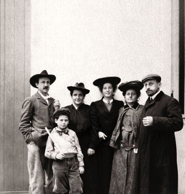 The Steins in the courtyard of 27 rue de Fleurus, ca. 1905. From left: Leo Stein, Allan Stein, Gertrude Stein, Theresa Ehrman, Sarah Stein, Michael Stein, The Bancroft Library, University of California, Berkeley